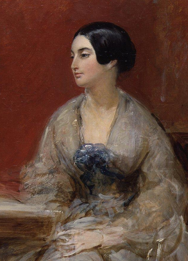 Detail of Maria-Louisa Phipps (née Campbell), Samuel Rogers, Caroline, Lady Stirling-Maxwell, by Frank Stone (died 1859), given to the National Portrait Gallery, London in 1921.